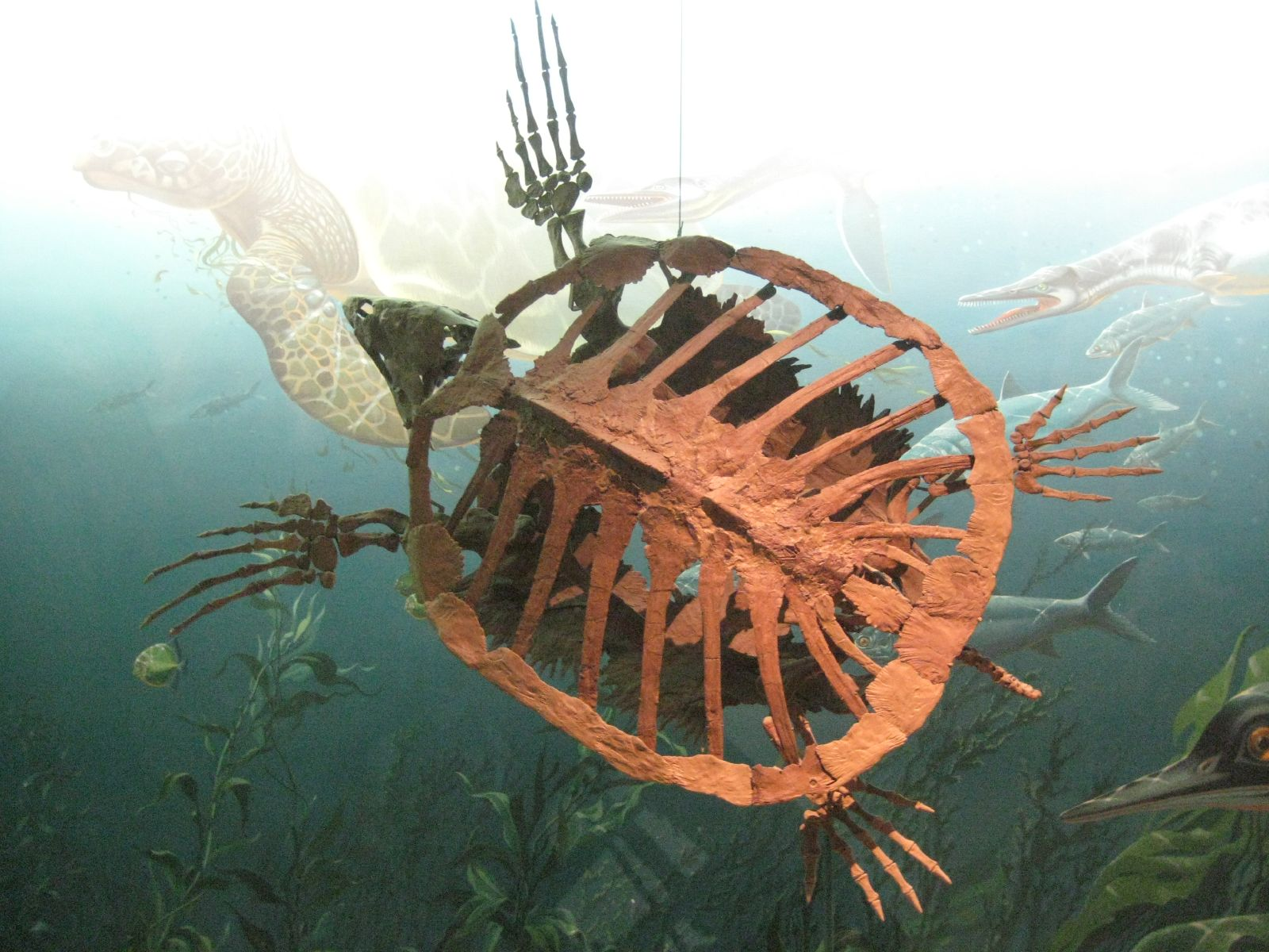 80 - 70 million years ago Late Cretaceous